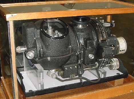 A photo of a Norden bombsight.